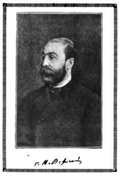 Poikilē stoa: ethnikē eikonographēnenē epetēris ... Etos 1-16, 1881-1914 (1894) Author: Ioannes A. Arsenēs , Michael A . Raphaelobits Volume: 10 Publisher: Estia Year: 1894 Possible copyright status: NOT_IN_COPYRIGHT Language: Greek Digitizing sponsor: Google Book from the collections of: Harvard University Collection: americana